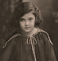 Publicity photo of Miriam Battista at age 8